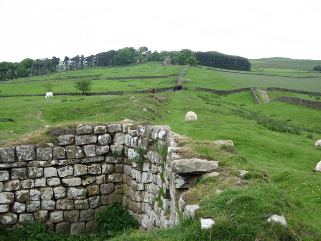 Hadrian's Wall and ditch looking west from Aesica